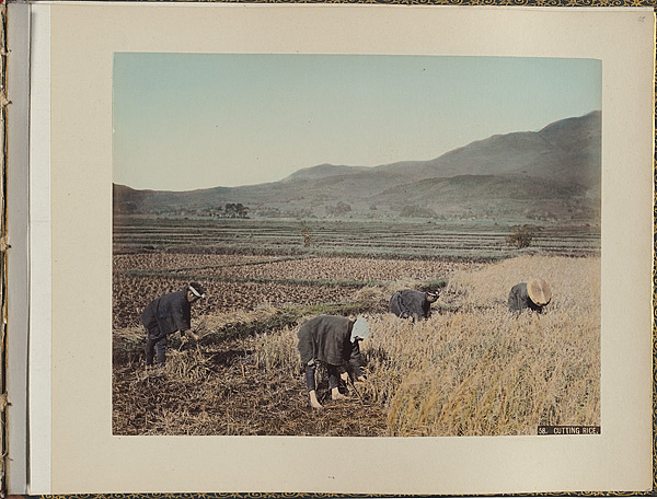 album 28.0 h x 38.0 w cm